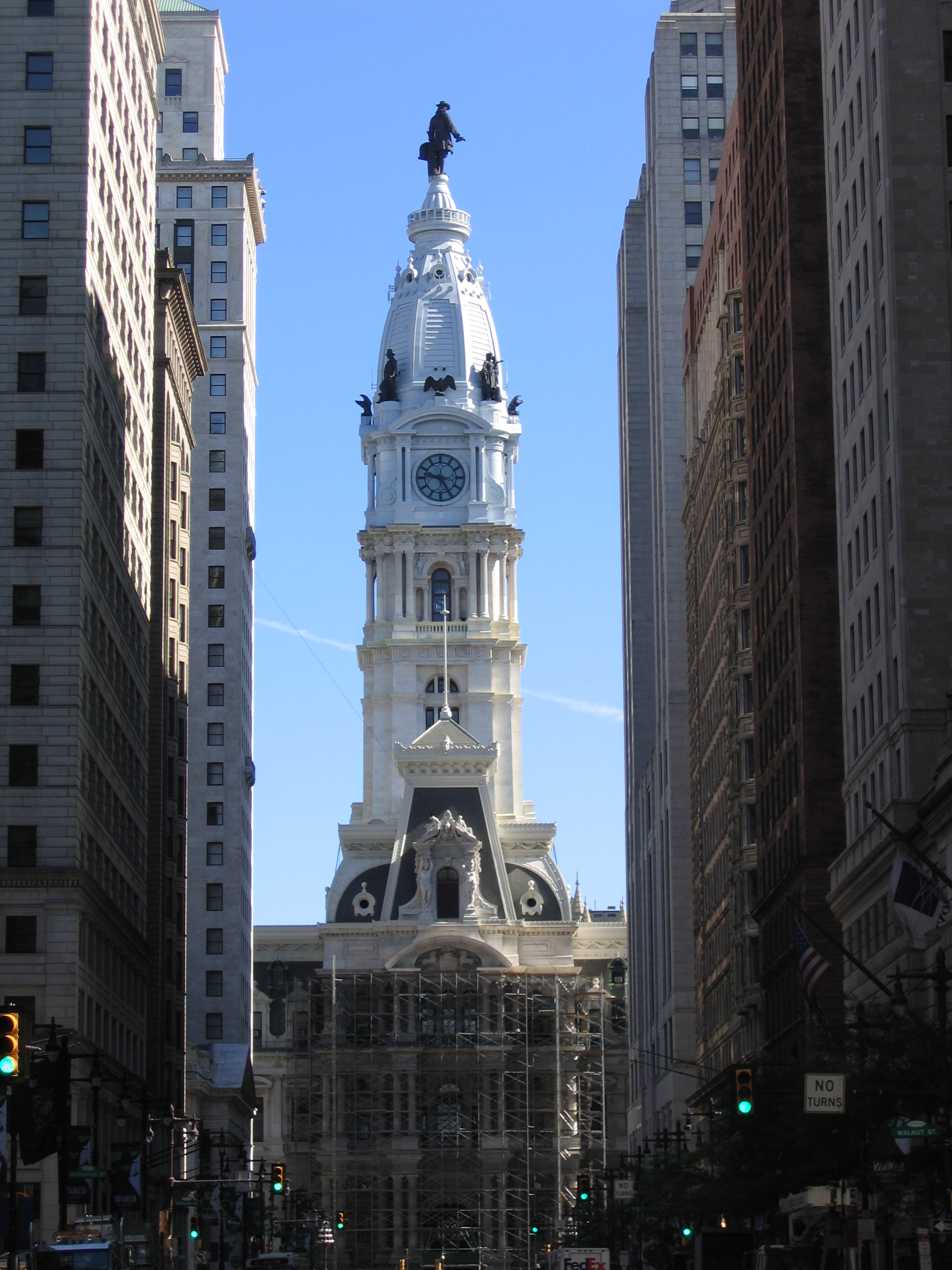 Philadelphia City Hall south elevation, viewed from South Broad Street